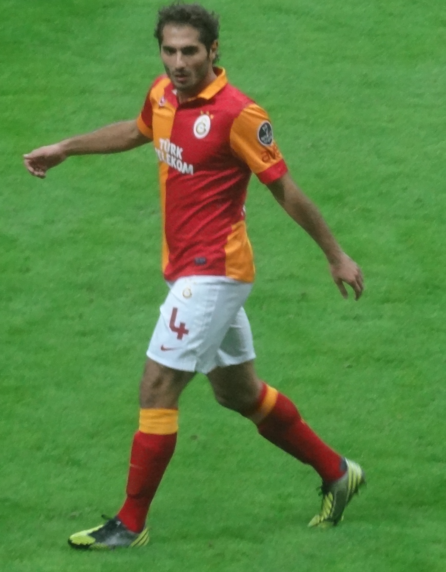 Hamit akhisar'a karşı forma giyerken.